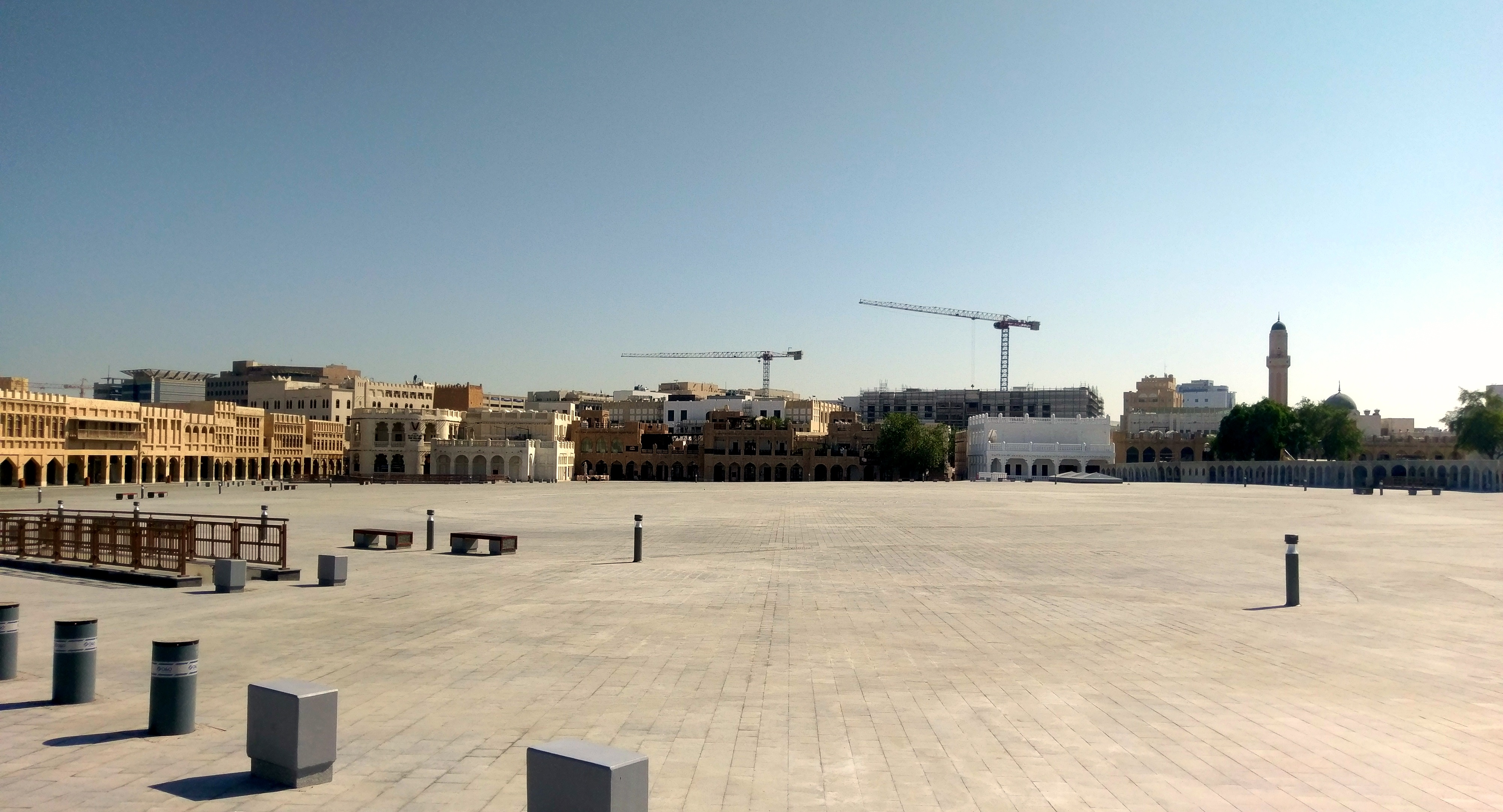 Souq Waqif